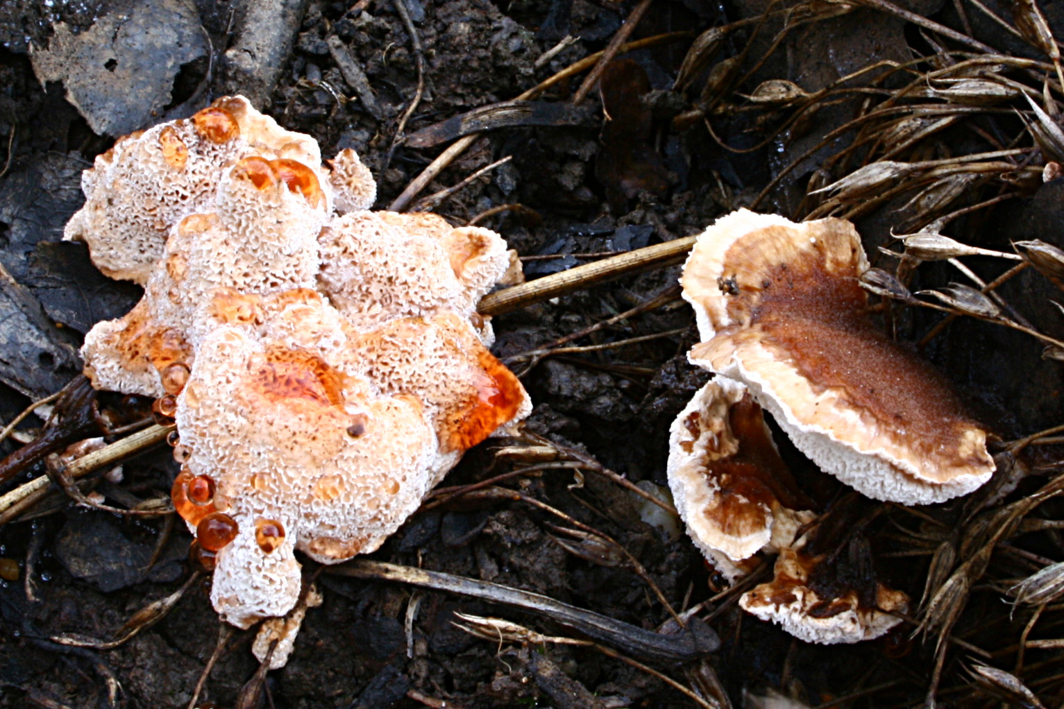 Young Abortiporus biennis in a forest near Dourdan, France. Like Hydnellum and some other fungi, A. biennis sometimes exudes red droplets. To the right is an example which is somewhat more developped.